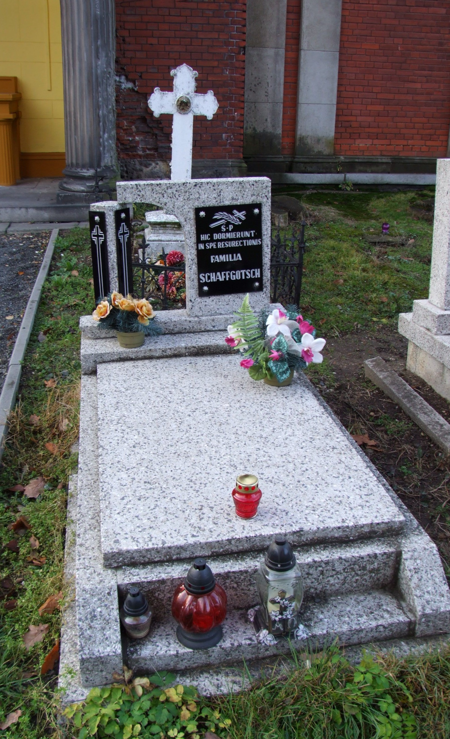 Koppitz (Kopice) - grave of Schaffgotsch family